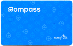 TransLink's Compass card